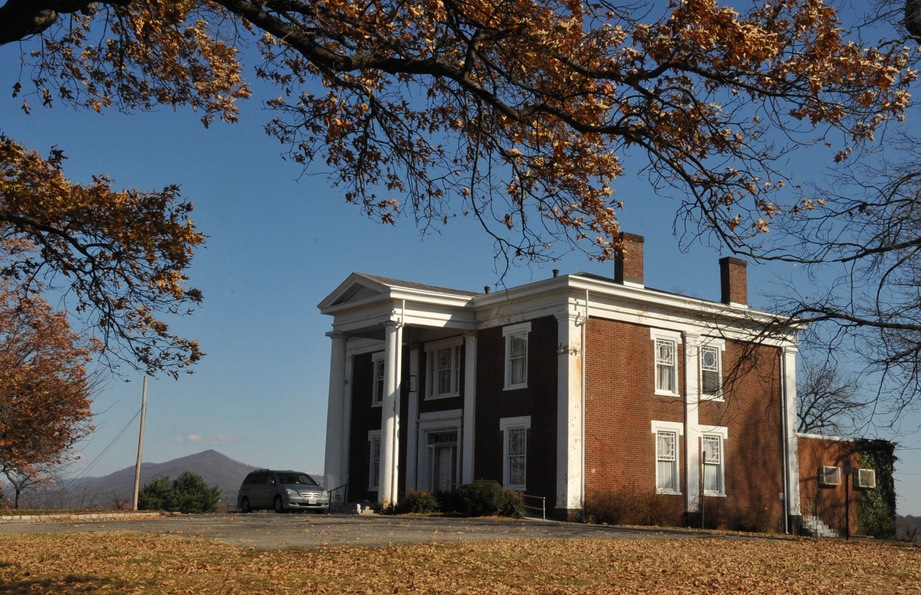 PLANTATION HOME LOCATED IN ROANOKE’S JACKSON PARK. IT WAS BUILT ABOUT 1840, AND IS A TWO-STORY, BRICK GREEK REVIVAL STYLE DWELLING. BUENA VISTA WAS BUILT FOR GEORGE PLATER TAYLOE (1804-1897), SON OF JOHN TAYLOE III AND ANNE OGLE TAYLOE OF THE NOTED PLANTATION MOUNT AIRY IN RICHMOND COUNTY.